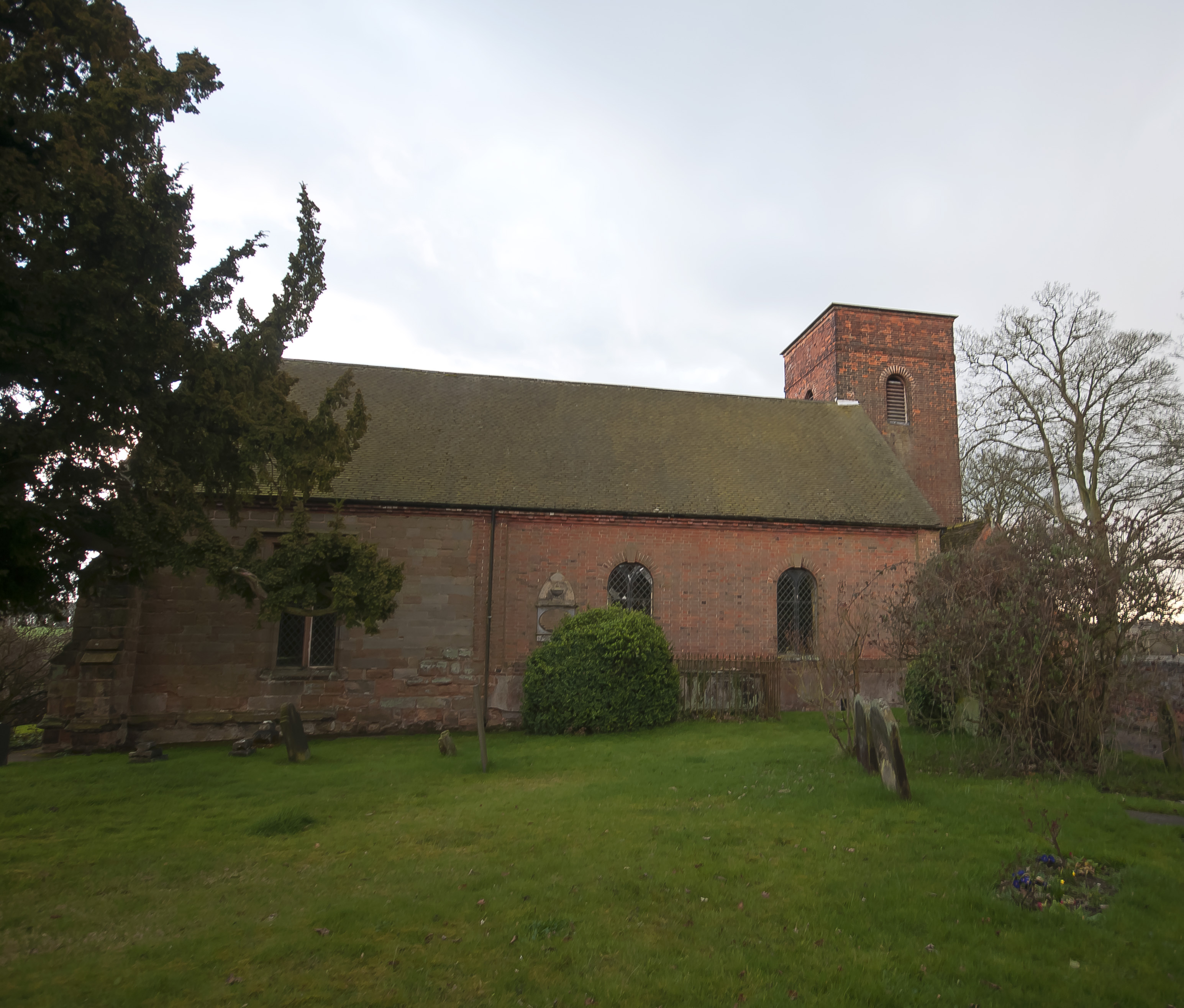 St Bartholomew's Church, Farewell